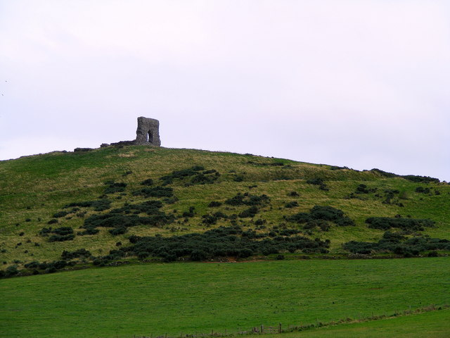 Ruined Fort at Dunnideer